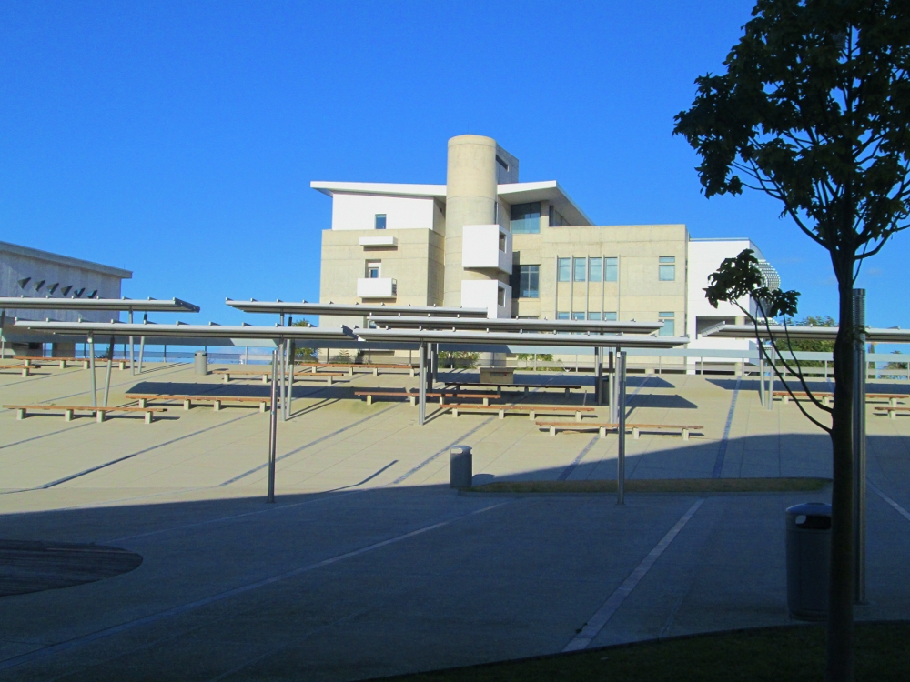 Square at University of Cyprus main buildings Nicosia Republic of Cyprus